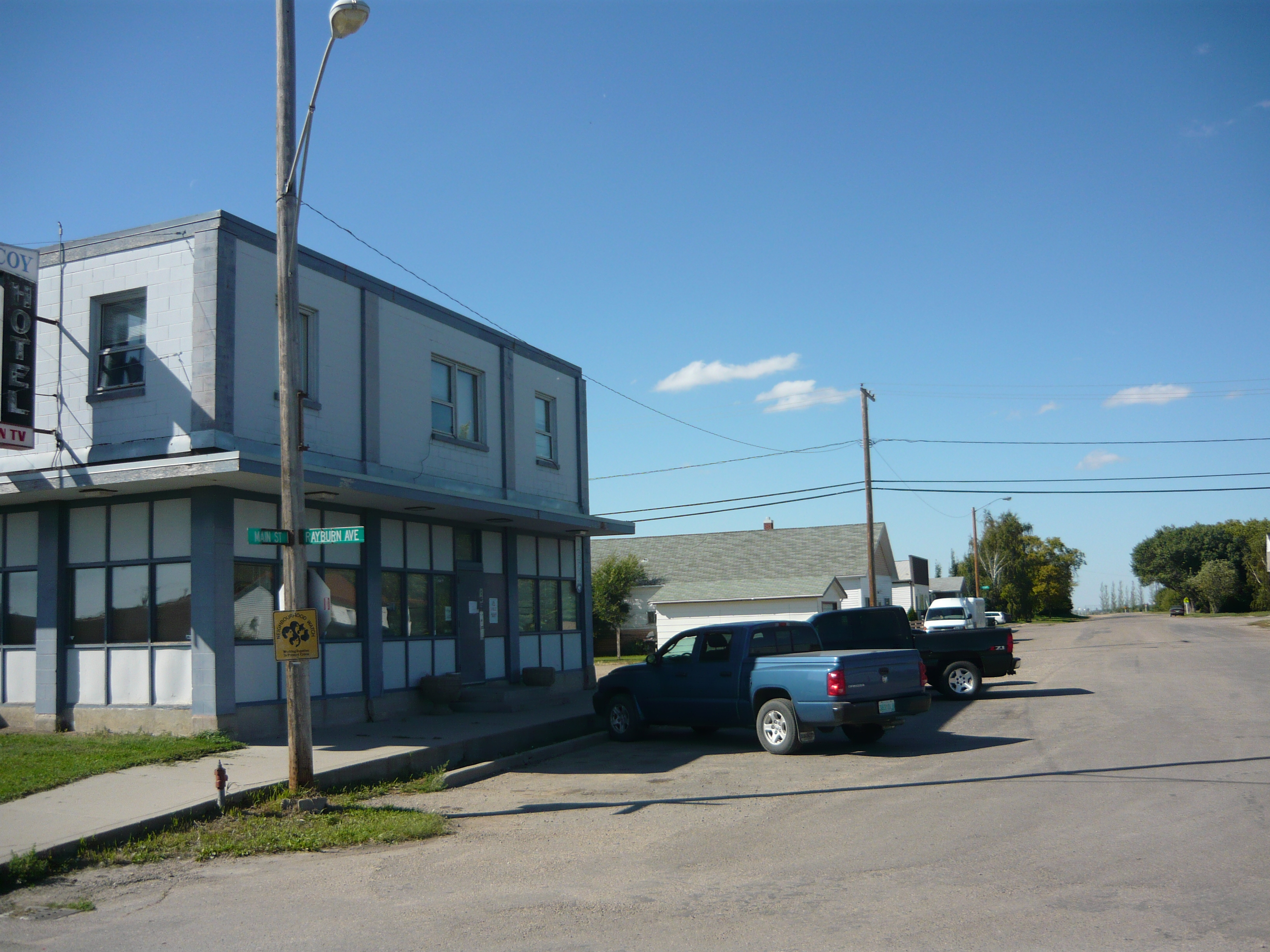 Intersection of Main Street and Rayburn Avenue (parallel and adjacent to Highway 7), looking northwestward along Main Street, Vanscoy, Saskatchewan, Canada. Building in the foreground is the Vanscoy Hotel.